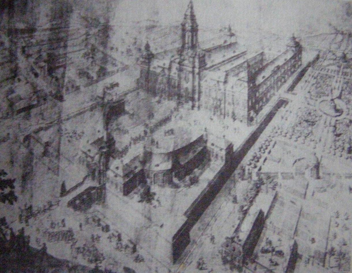 The initialled plan of the Saint Gotthard Abbey